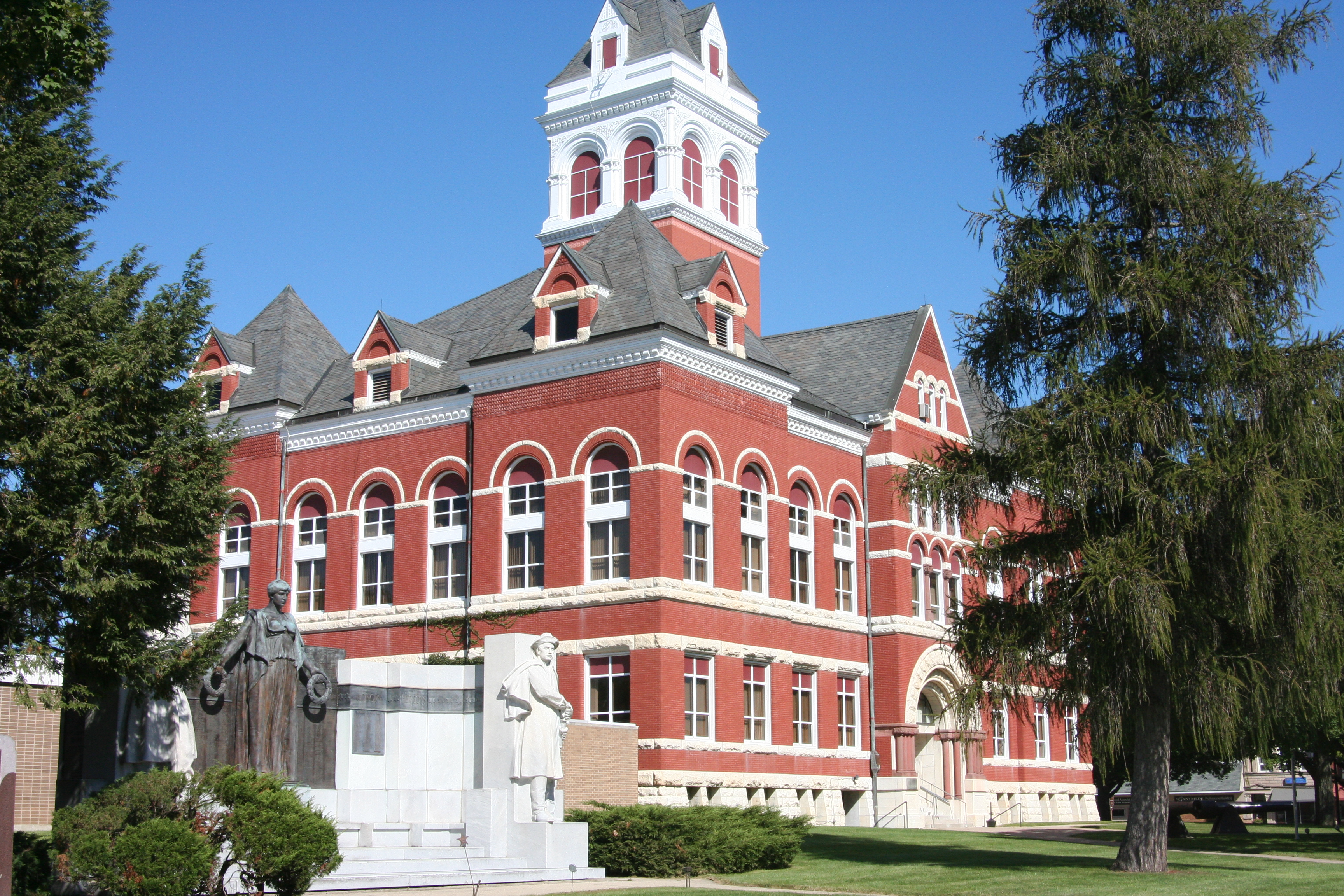 The Ogle County Courthouse located in Oregon, Illinois, USA.